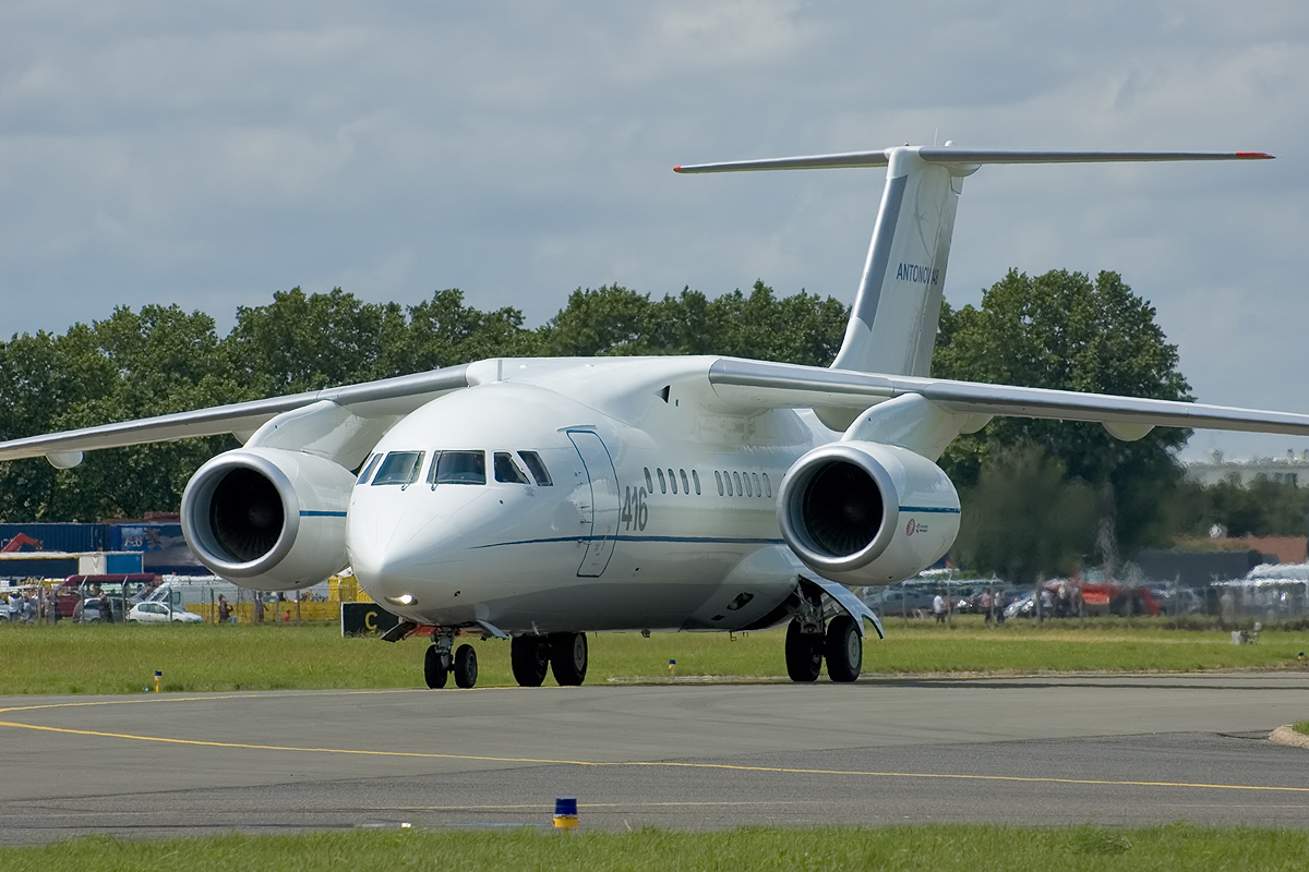 Antonov An-148 at Paris Air Show 2007